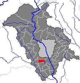 This map shows the area of the Gemeinde (municipality) Pirka in the Bezirk (district) Graz-Umgebung, Styria, Austria.